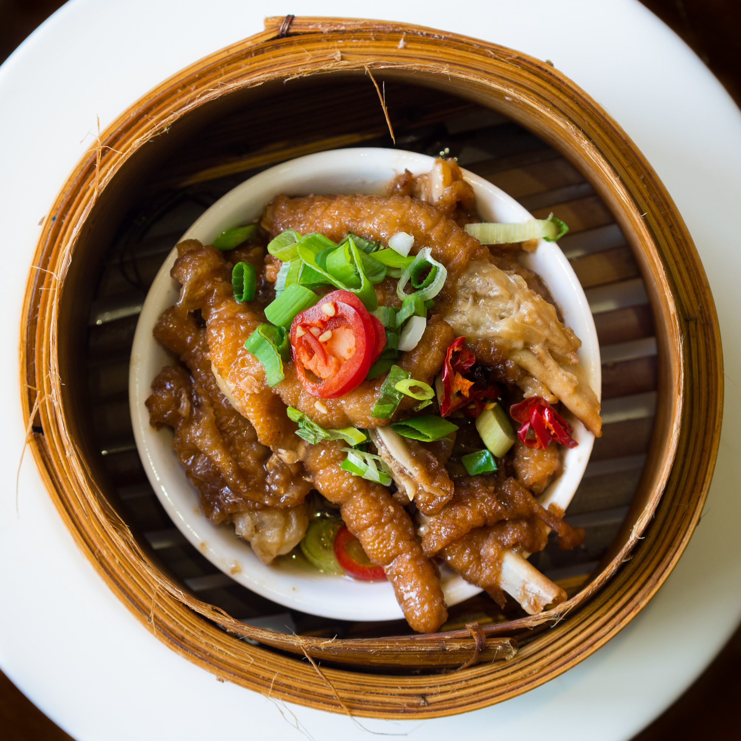 Chicken feet dim sum served at "Wong Kee", a Chinese restaurant in The Hague.